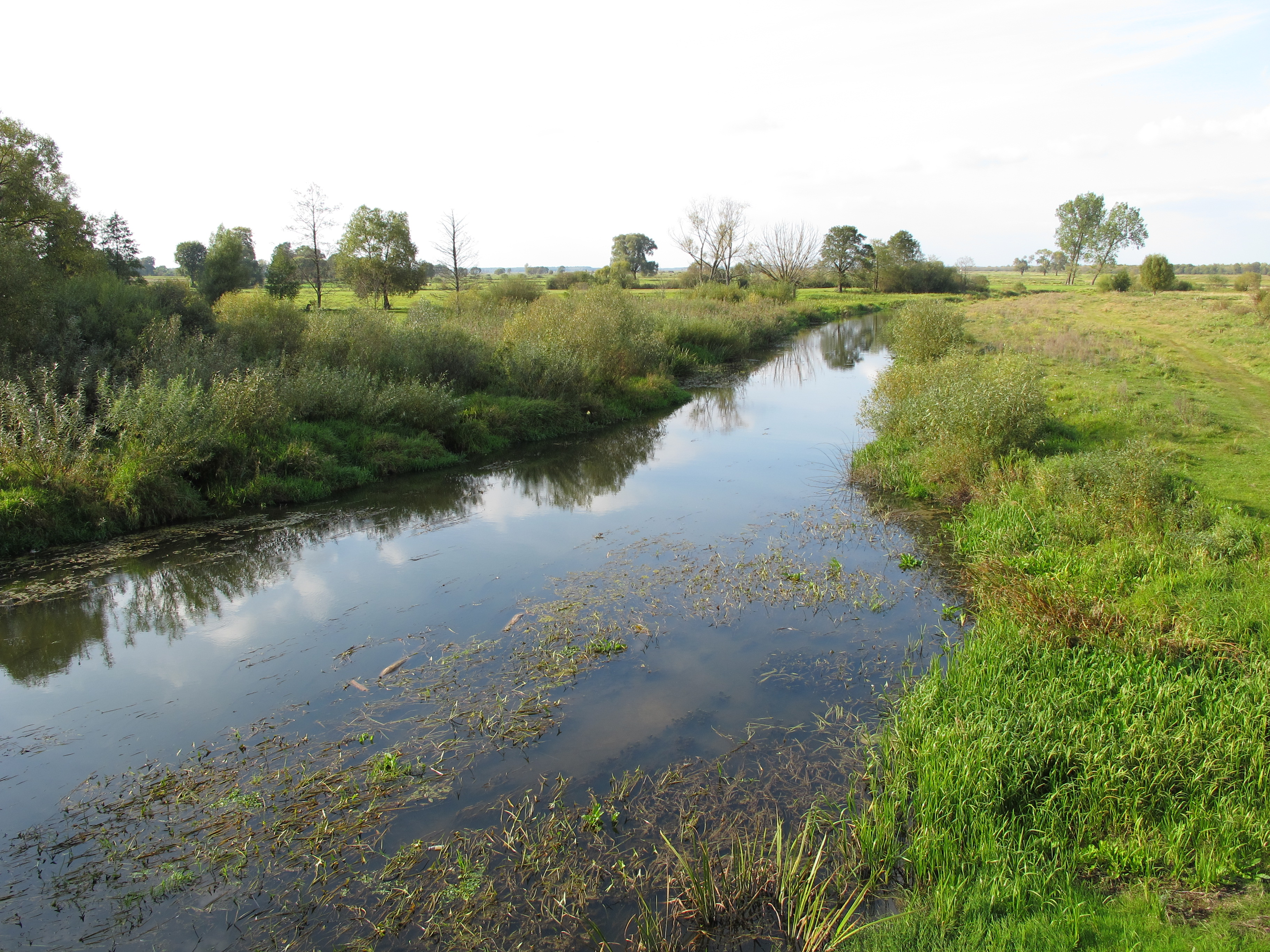 Brzozówka river near Karpowicze village, gmina Suchowola, podlaskie, Poland